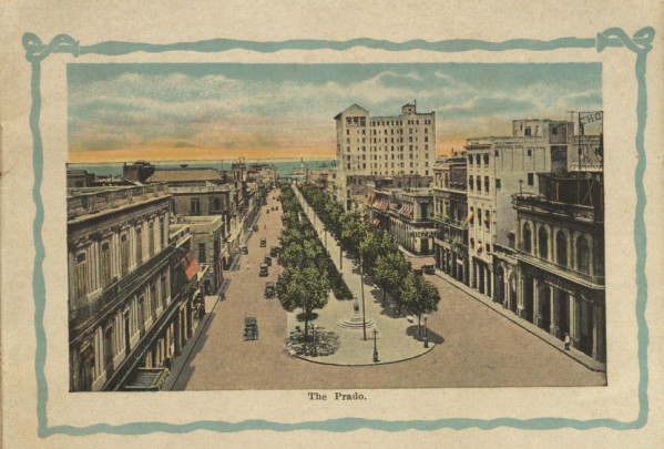 Paseo del Prado in Havana Cuba